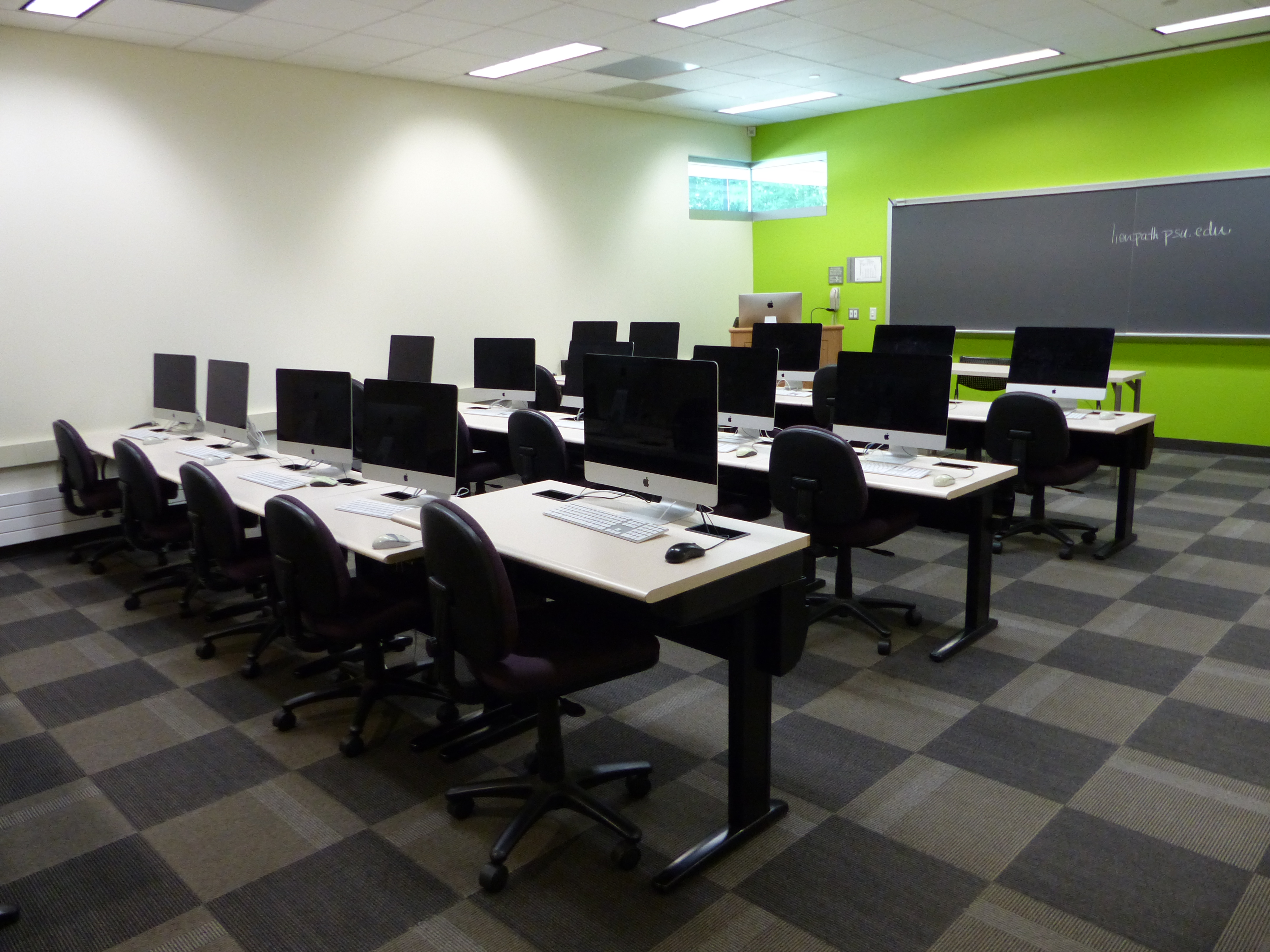 architecture